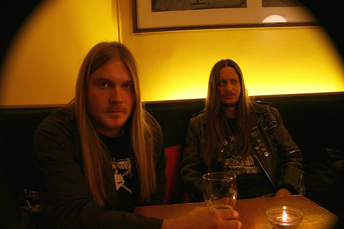 the Norwegian band Darkthrone